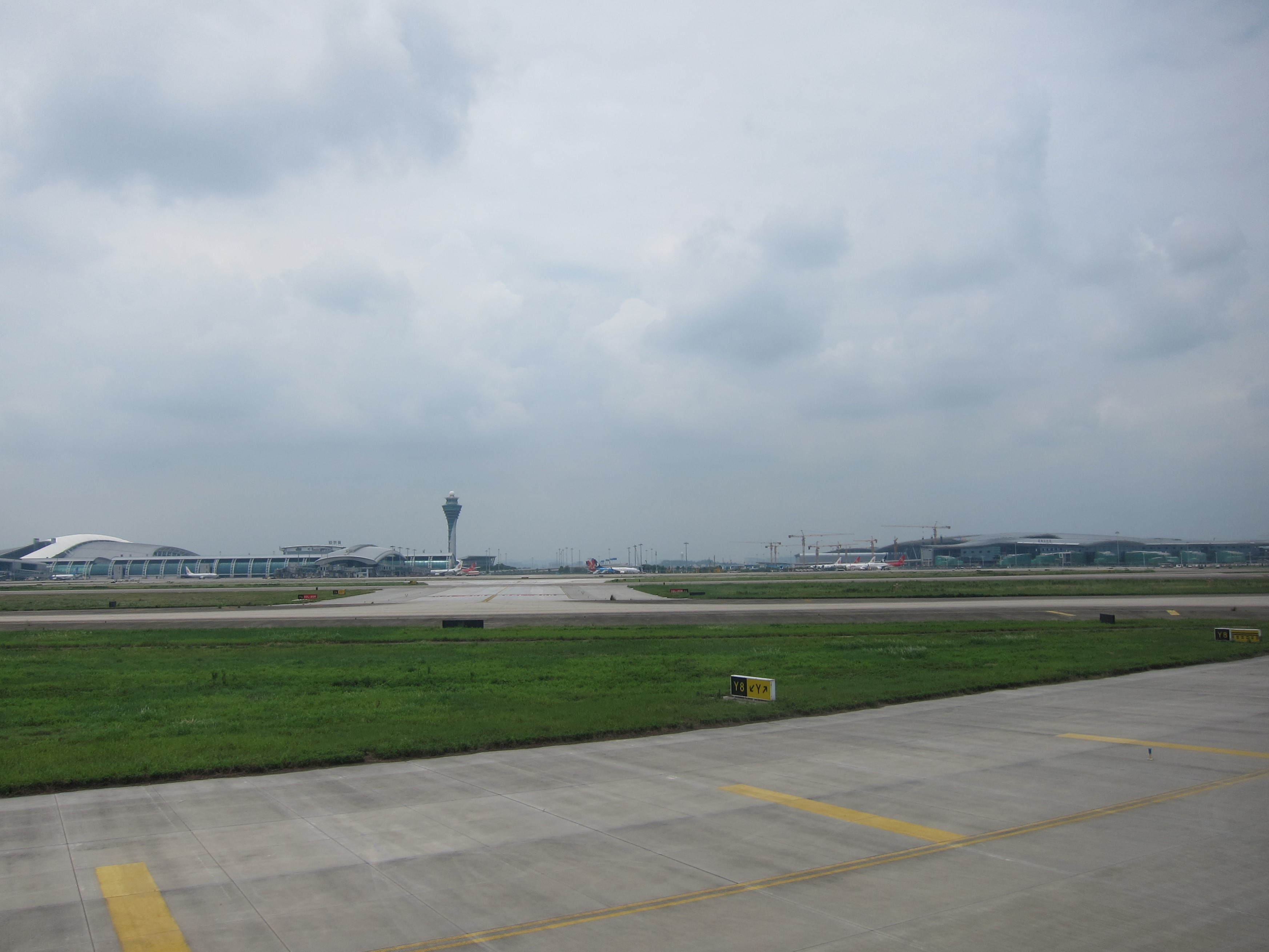 The revise version of original picture is called“IMG_2713.jpg”Description of revise：Picture’s horizontal